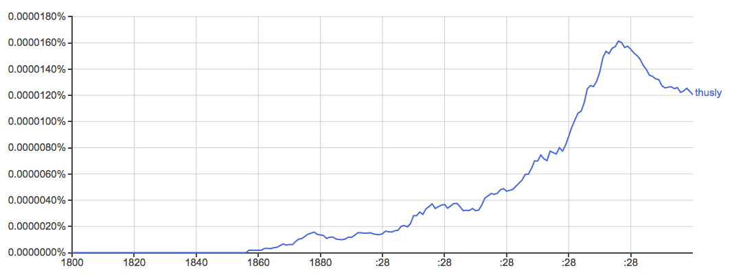 Usage of the word 'thusly' since 1800. From Google Books Ngram Viewer, 2012 English language corpus.[1]